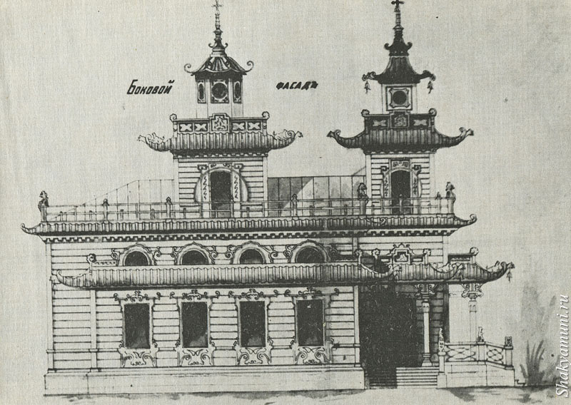 Lateral facade. Buddhist temple in Ketsin Buluk (Iki-Chonos)